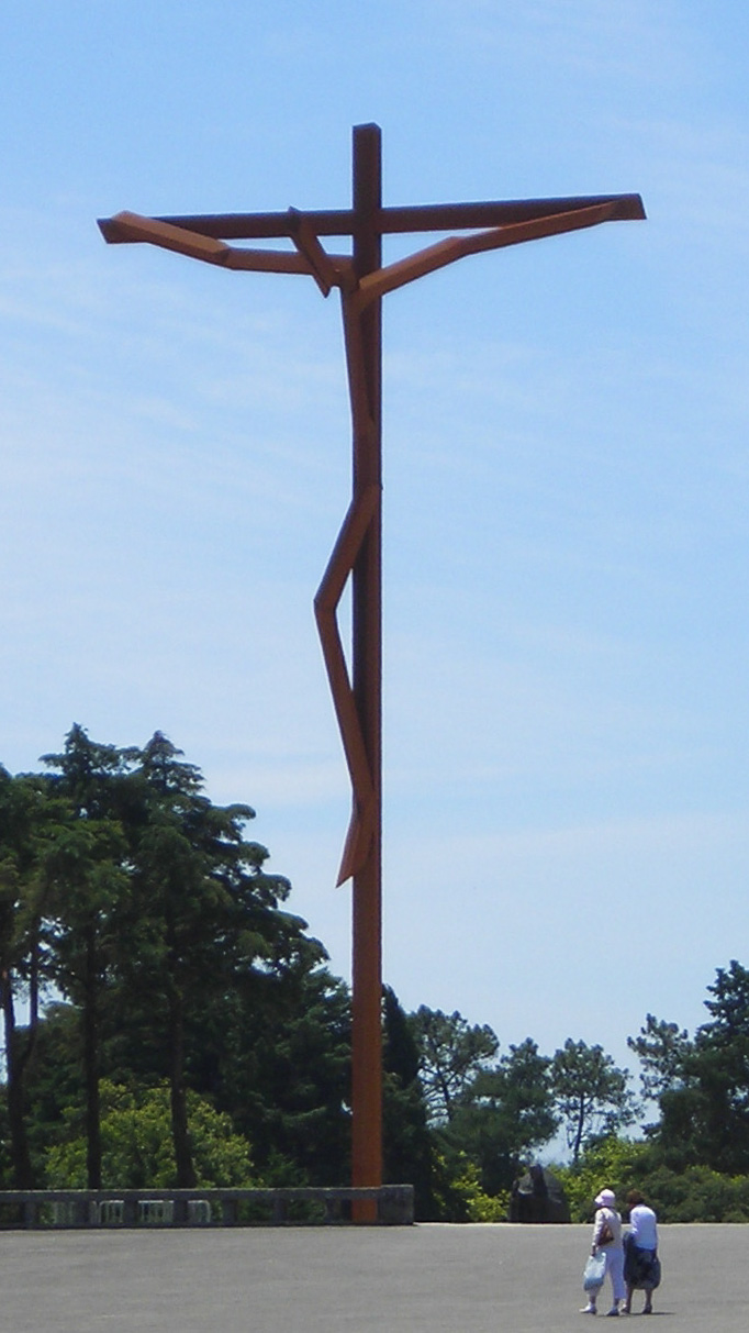 view of Fatima in Portugal